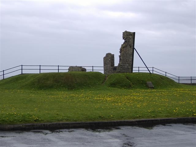 Hango Hill / Castletown Also known as Mount Strange,this is the spot where in 1662 the Manx patriot Illiam Dhone was executed.